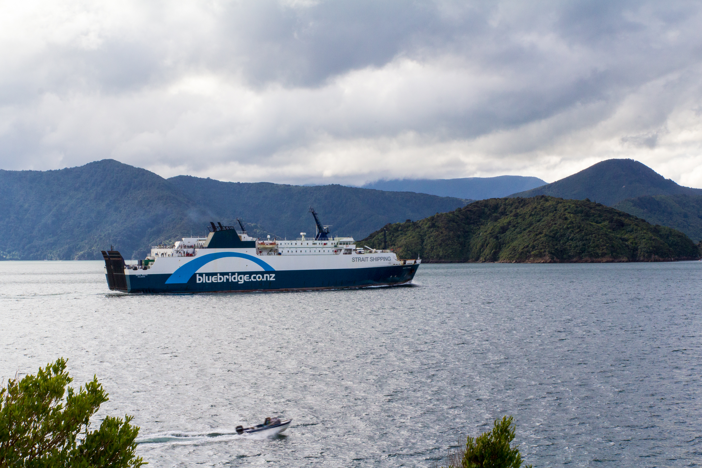 The Santa Regina on its way from Picton to Wellington